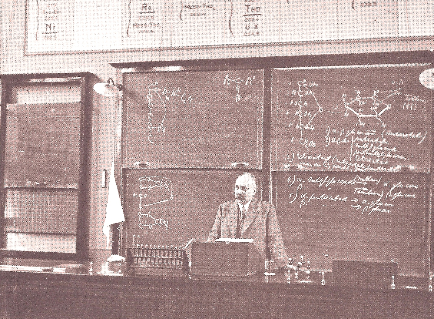 Professor Backer geeft les